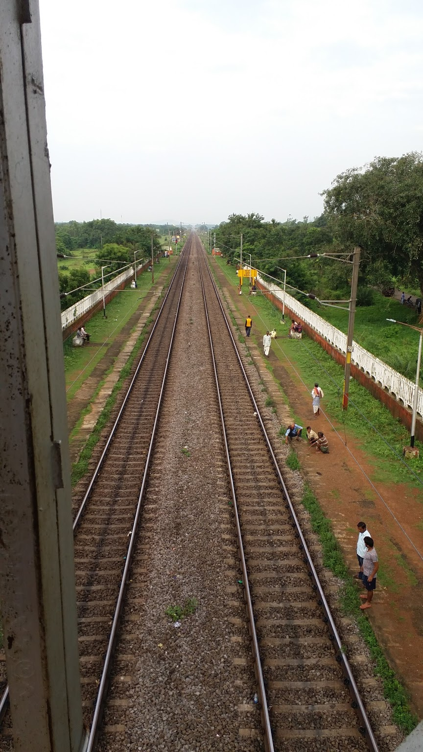 This is the Picture of Kuhuri railway station